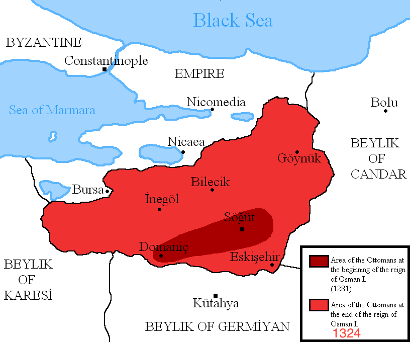 Map showing the area of the Ottoman Empire during the reign of Osman I and his conquests. I used the information of various historical books and these maps